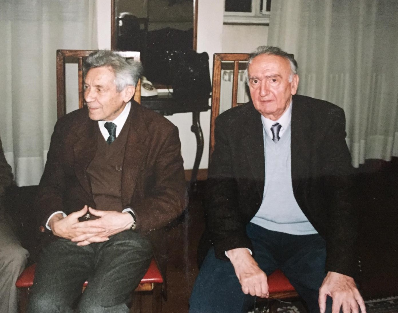 Miodrag Pavlović, Serbian poet, writer, critic and academic, and Vladeta Jerotić, Serbian psychiatrist, psychotherapist, philosopher and writer.